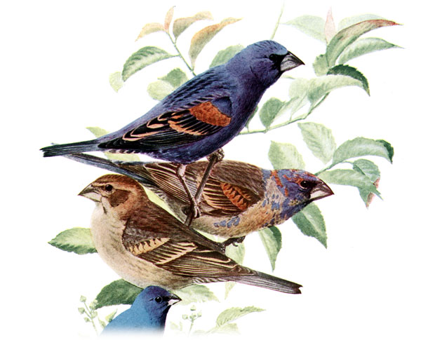 Blue Grosbeak, Passerina caerulea (syn. Guiraca caerulea), offset reproduction of watercolor